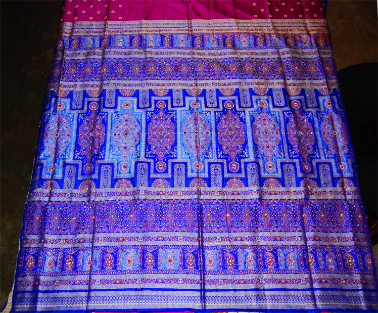 Handwoven Sambalpuri Sarees are one of the mainstream handcrafted fabric of Odisha. Sonepur is one of the prime hub of Sambalpuri Saree weaving.